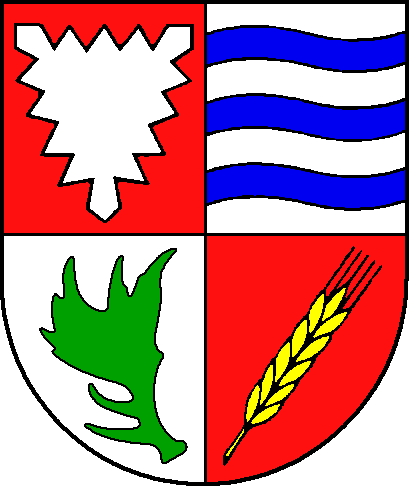 Coat of arms of the municipality Wangels in Schleswig-Holstein, Germany.